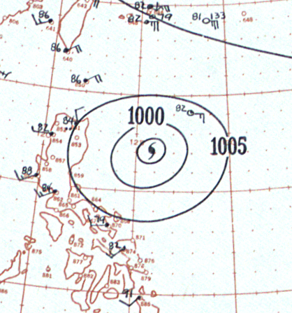 Surface analysis of a typhoon in the Philippine Sea on July 26, 1940. This system later made landfall near Hong Kong as a relatively weak system.